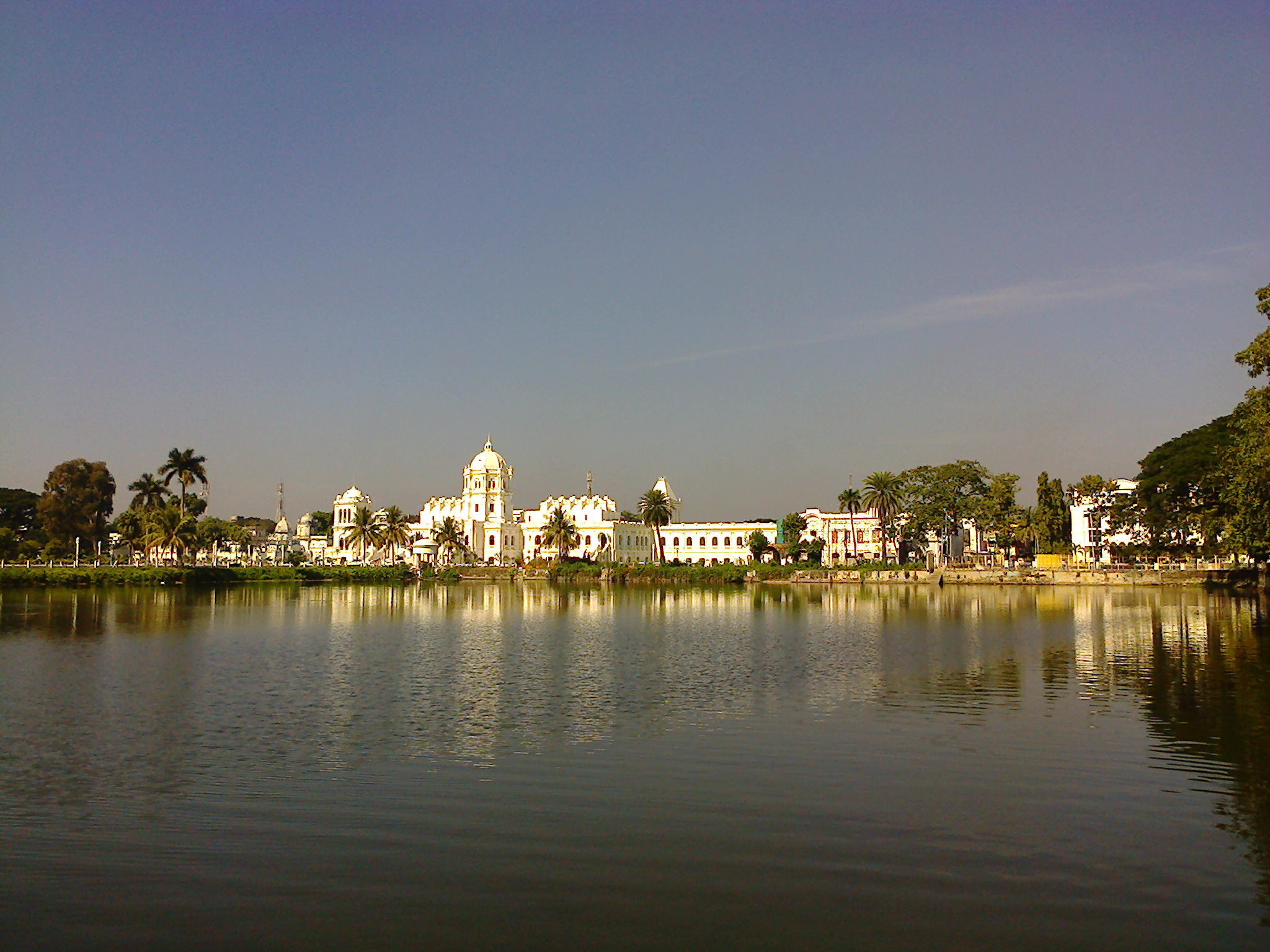 Ujjayanta Palace as seen from Bari road